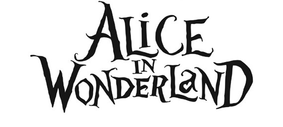 Is a simple logo of Alice in Wonderland